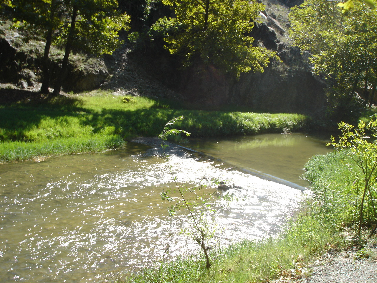 river Topolka, near Veles, Macedonia